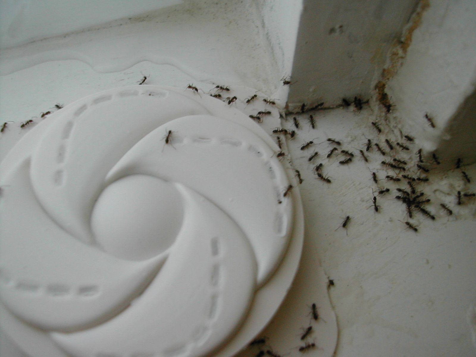 Argentine ants taking bait from a commercial trap